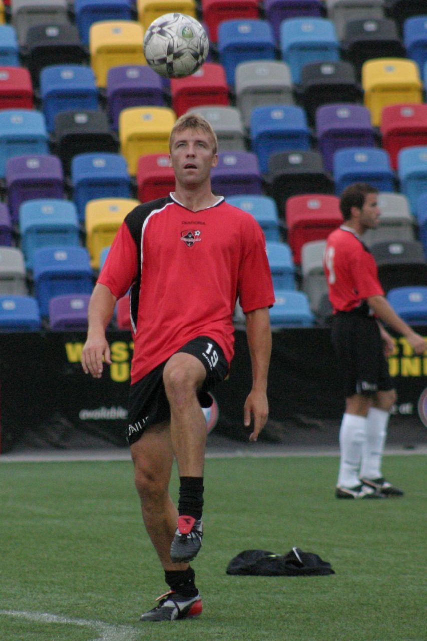 Martyn Lancaster warming up for Atlanta Silverbacks before their match in the United Soccer Leagues First Division against the Carolina Railhawls in May 2007